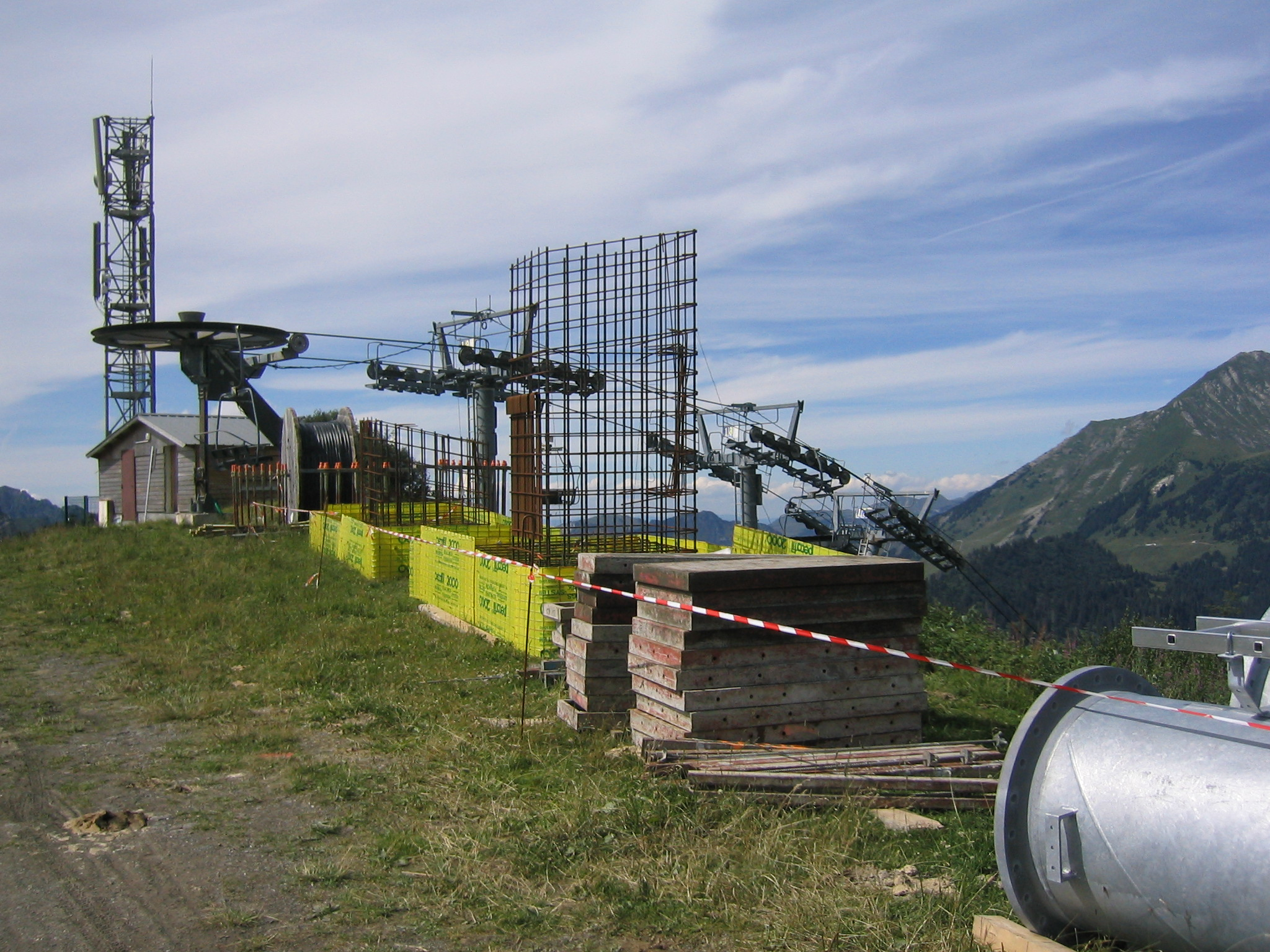 Ski lift